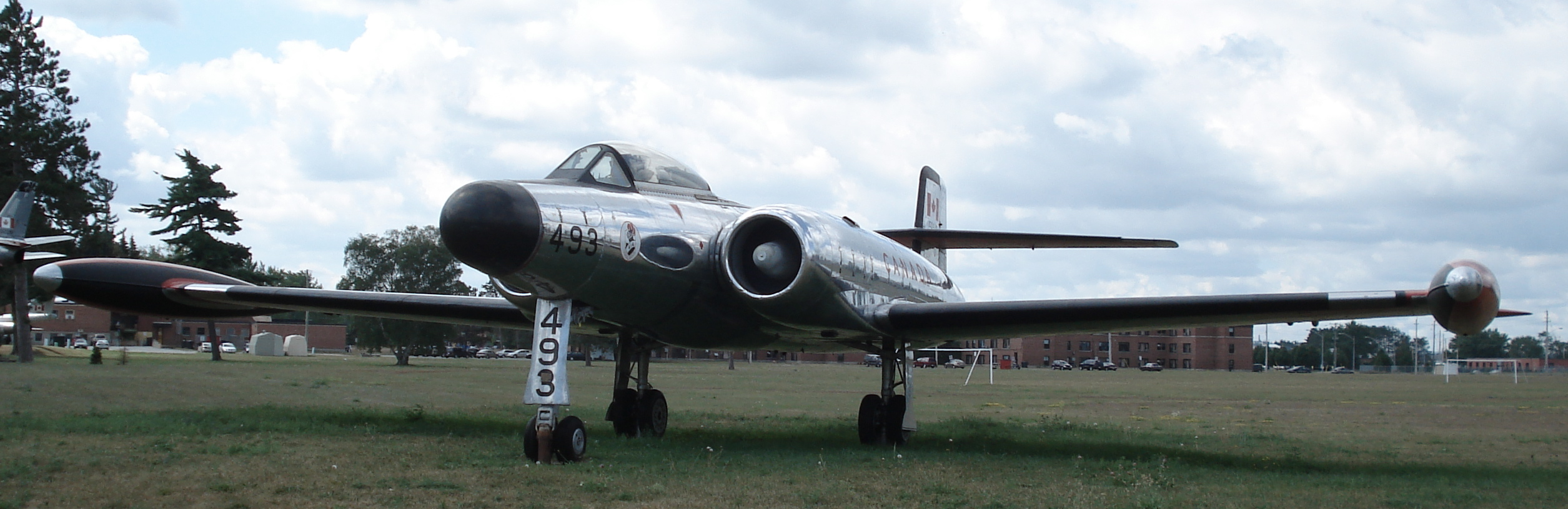 Canadian fighter CF-100 Canuck. This example is displayed on the grounds of CFB Borden (Base Borden Military Museum). Photo taken on August 18, 2006. Source: Photo by me, User:Balcer.